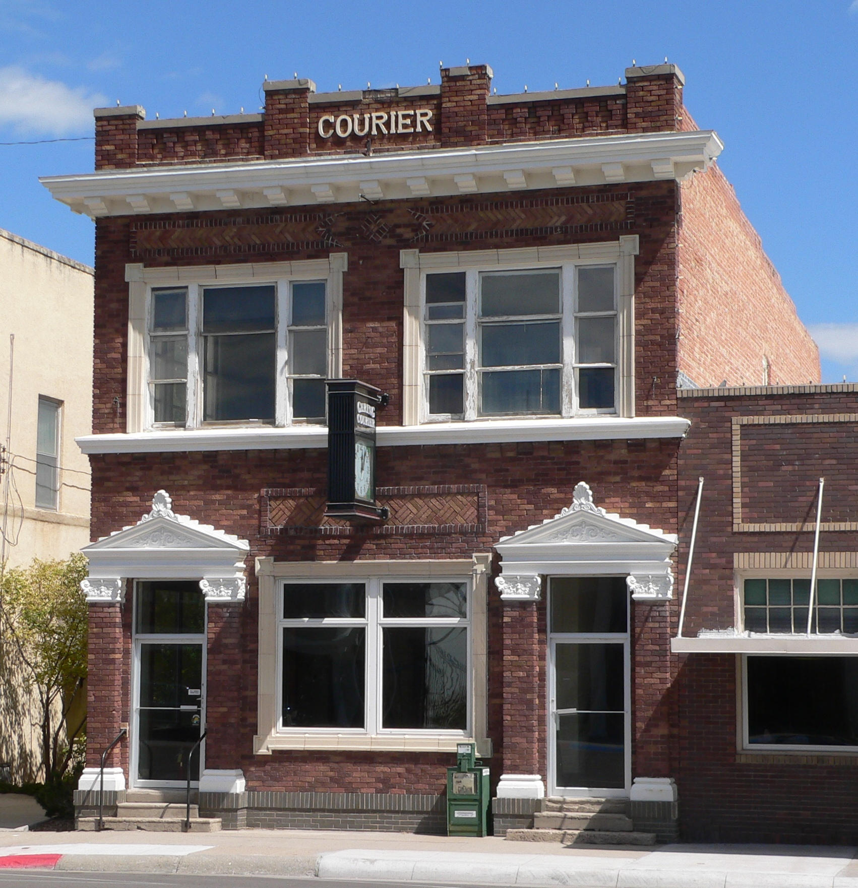 Gering Courier building in Gering, Nebraska; seen from the southwest. The Classical Revival building was constructed in 1915. It is listed in the National Register of Historic Places. At the time of the photograph, the first floor interior was apparently undergoing renovation, and there was no evidence of a business currently operating from the building.